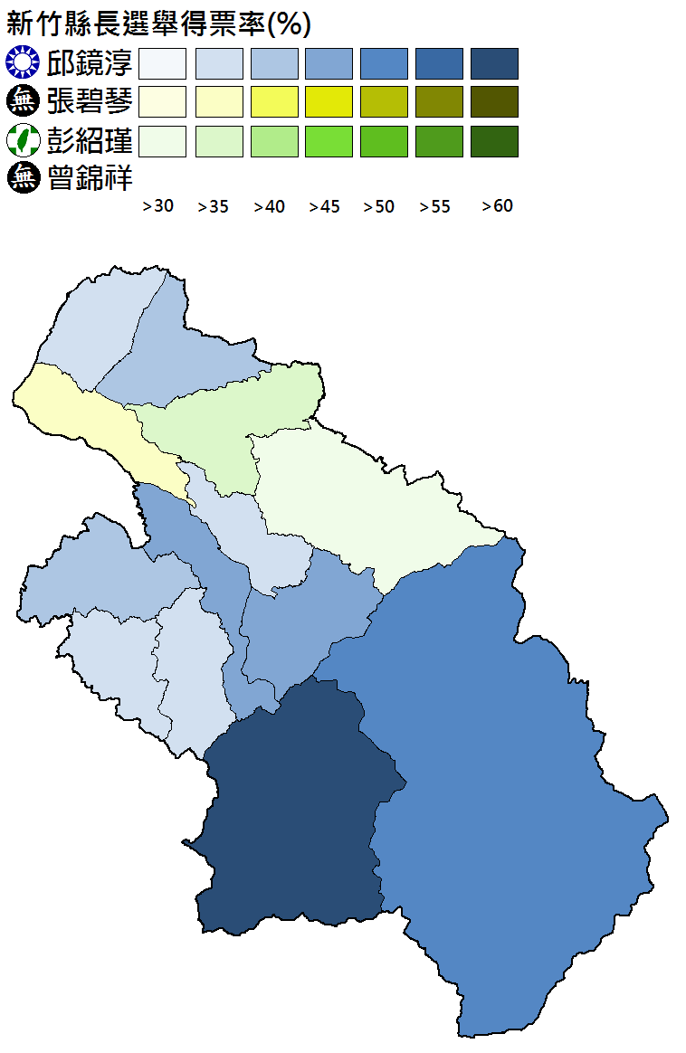 Hsinchu magistrate election 2009